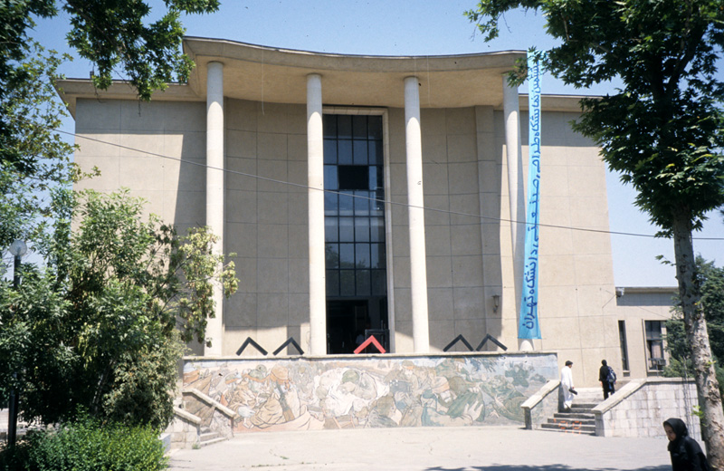 College of Fine arts Of Tehran University